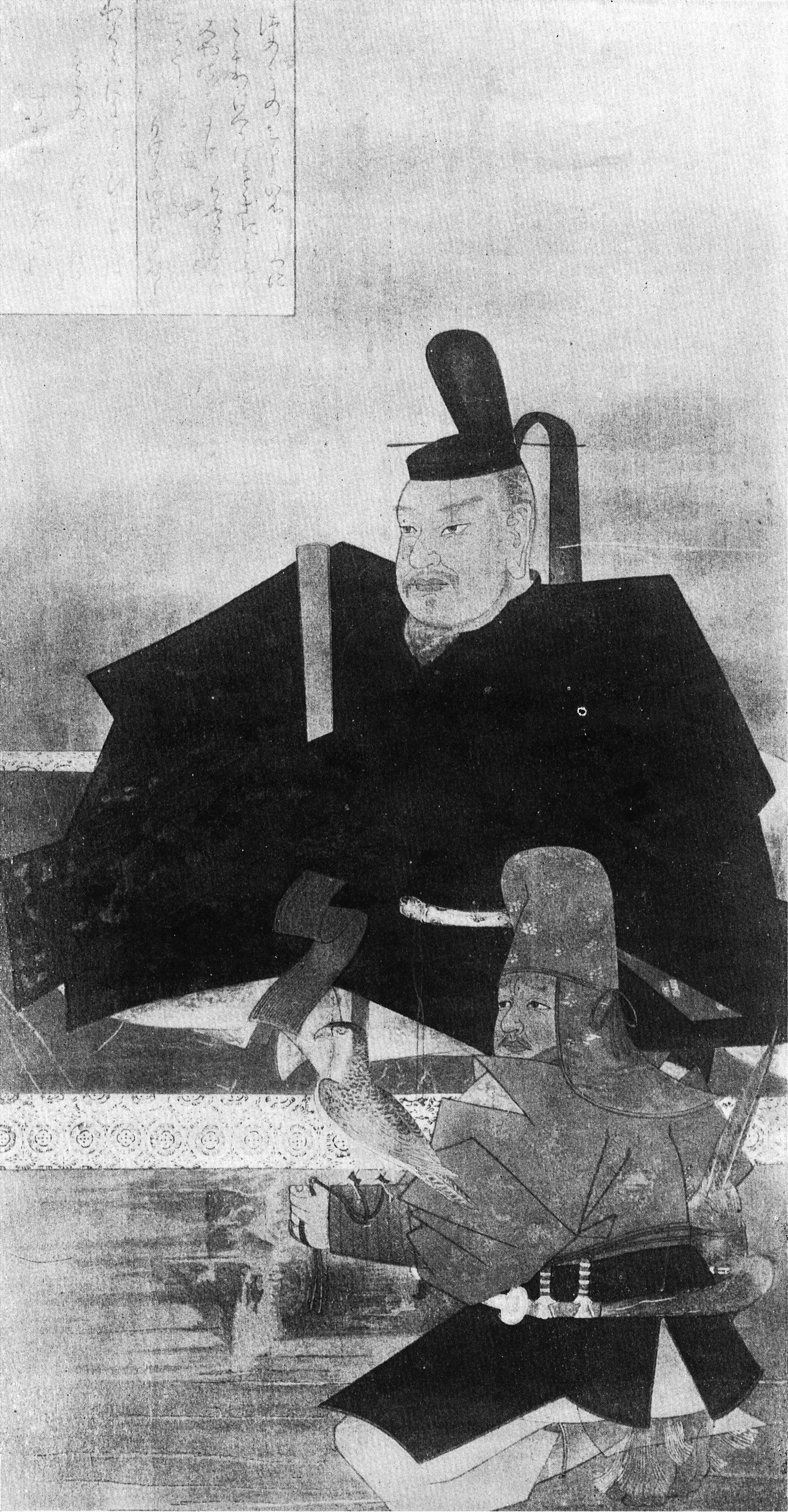 Portrait of Ariwara no Yukihira (Attributed to Fujiwara no Tametsugu)